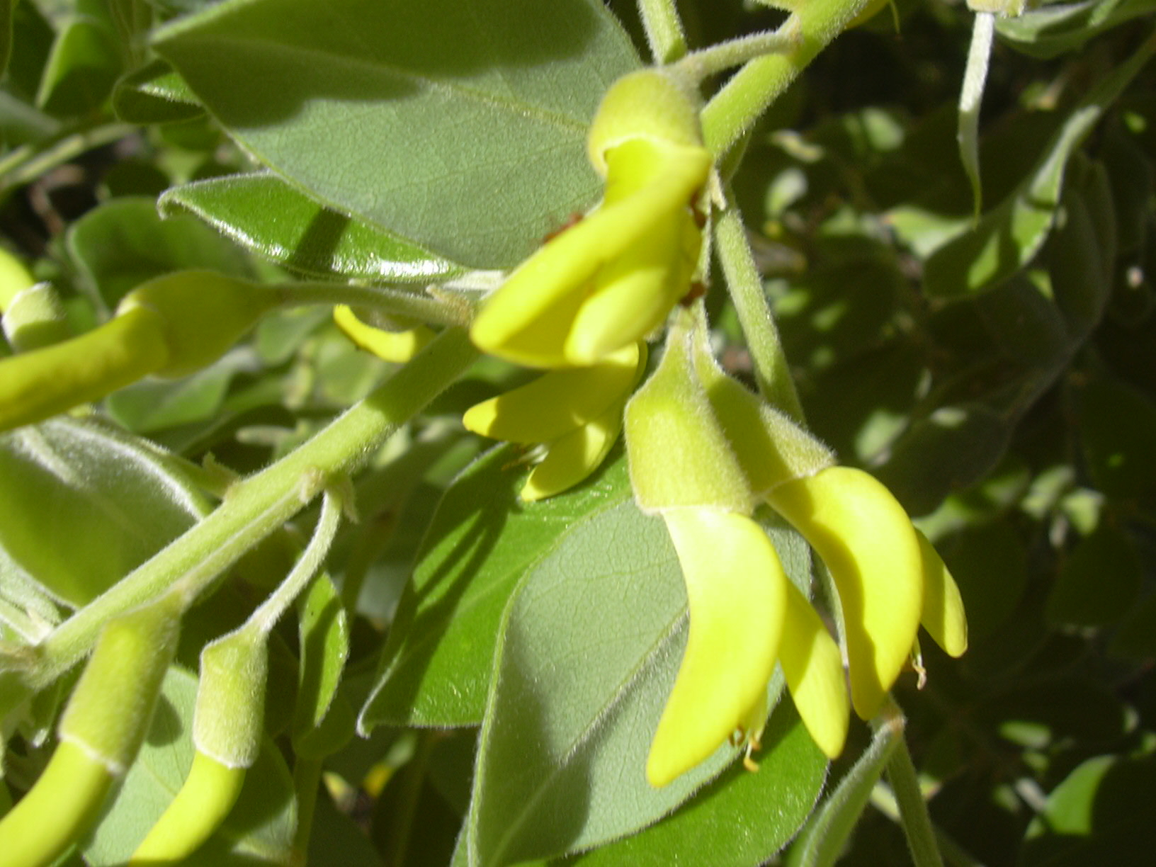 Sophora tomentosa (flowers). Location: Florida, Caspersen Beach